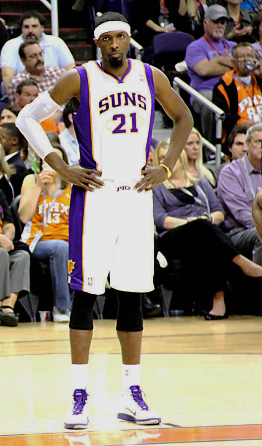 Hakim Warick, 2011